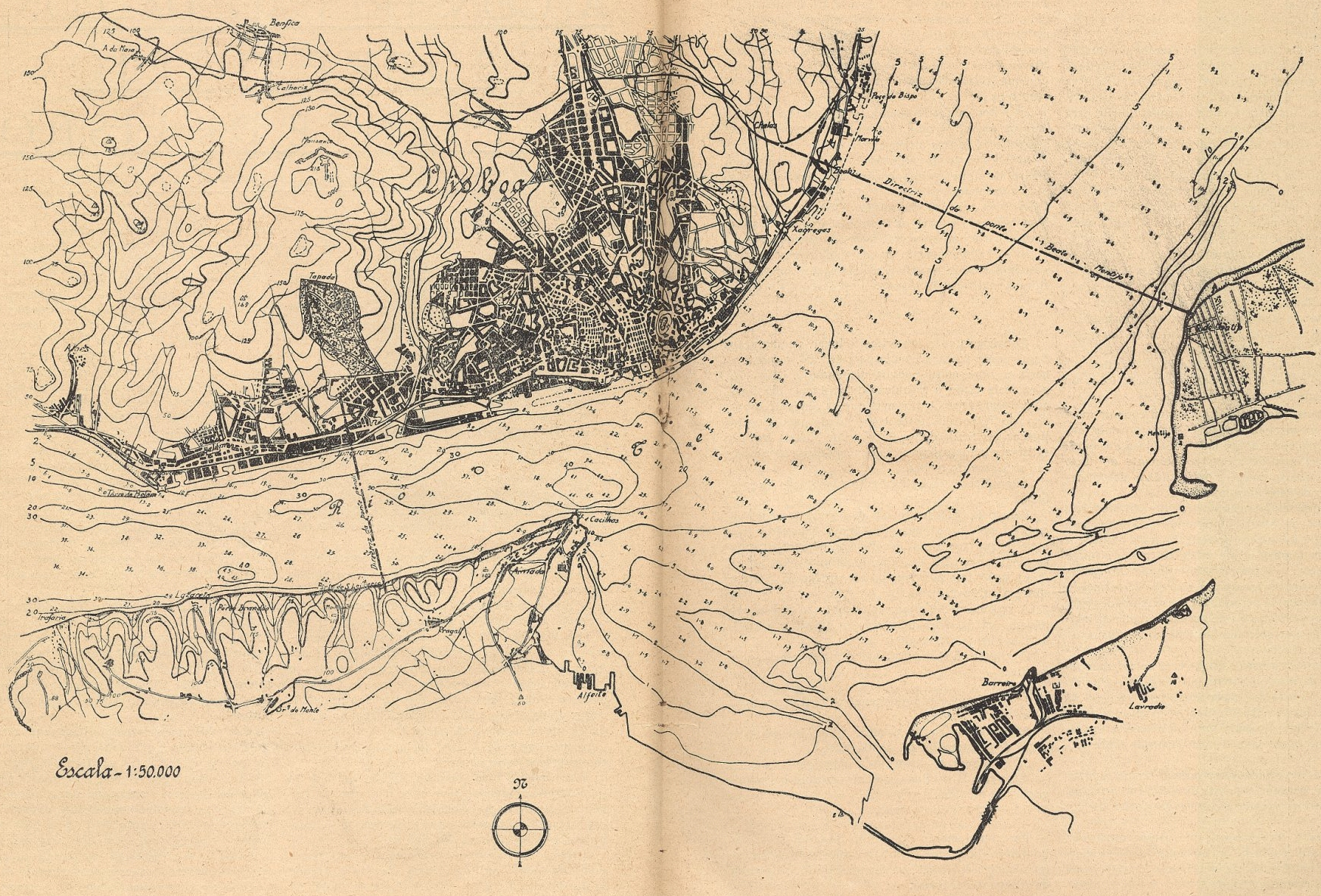 Map with two projects for bridges between the city of Lisbon and the southern margin of the Tagus river, in Portugal. On the left is the "Ponte Pênsil", future 25 de Abril bridge, that was built. On the right is the abandoned project for a bridge between Beato and Montijo, with the railway connections in the Northern margin. This image was published on the Gazeta dos Caminhos de Ferro magazine No. 1202, of 16th January 1938, and scanned by the Hemeroteca Municipal de Lisboa.